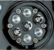 Trailer Socket with 13 contacts System Multicon WeST, (abbreviation to World Plug) compatible to Trailer Plugs with 7 contacts according to ISO 1724